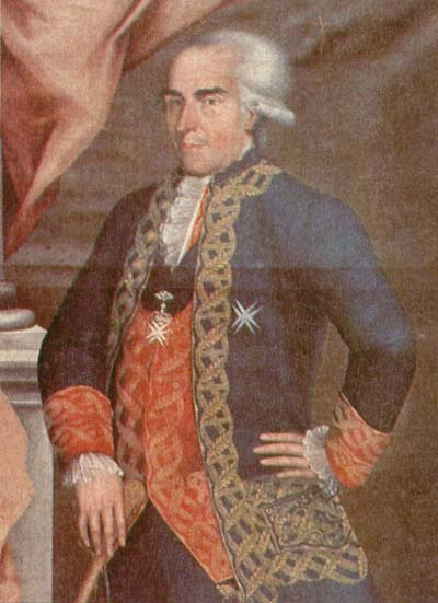 Portrait of Francisco Gil de Taboada y Lemos (1733-1809)